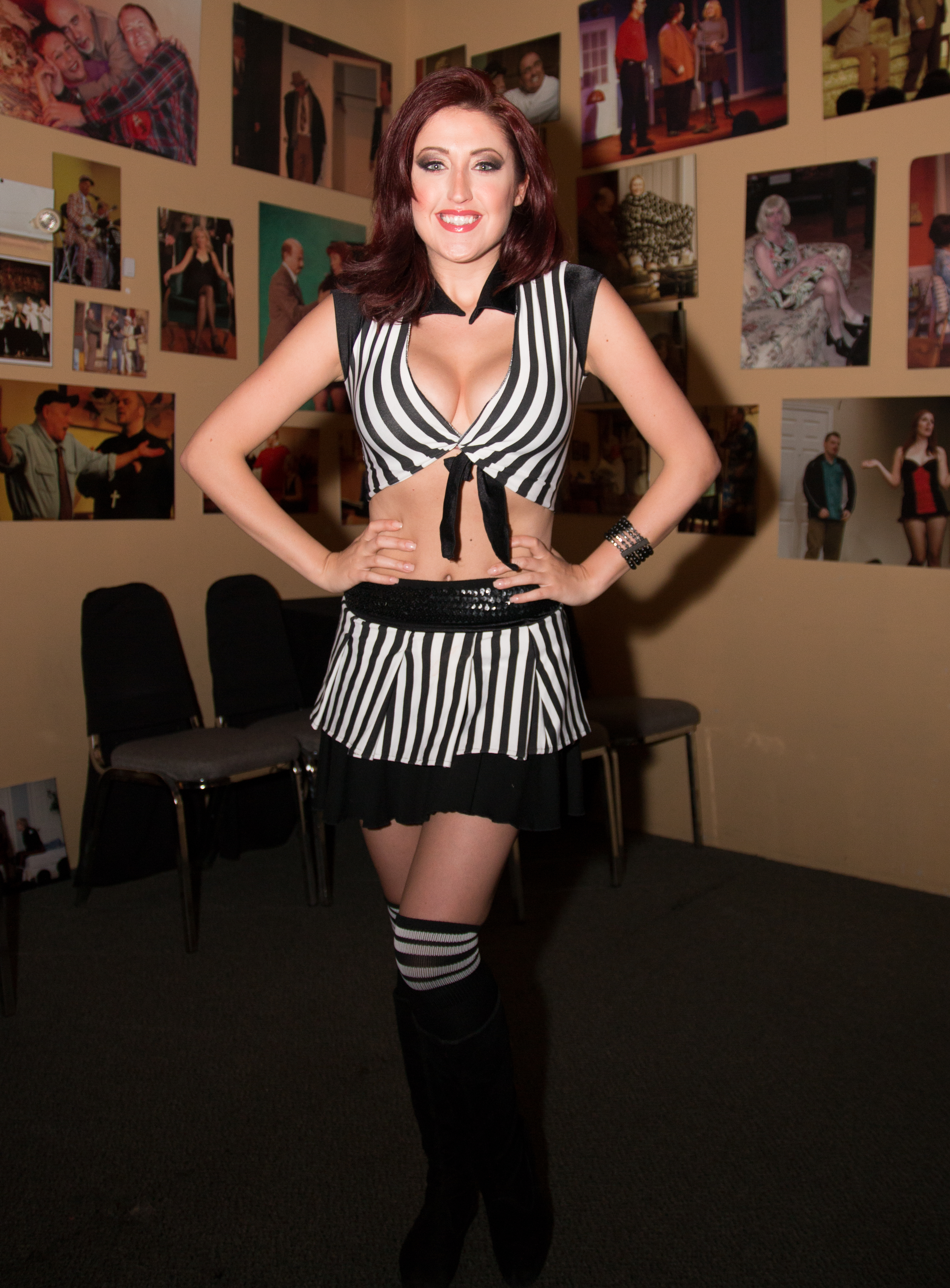 SoCal Val at a Squared Circle Wrestling show in Whitby, ON